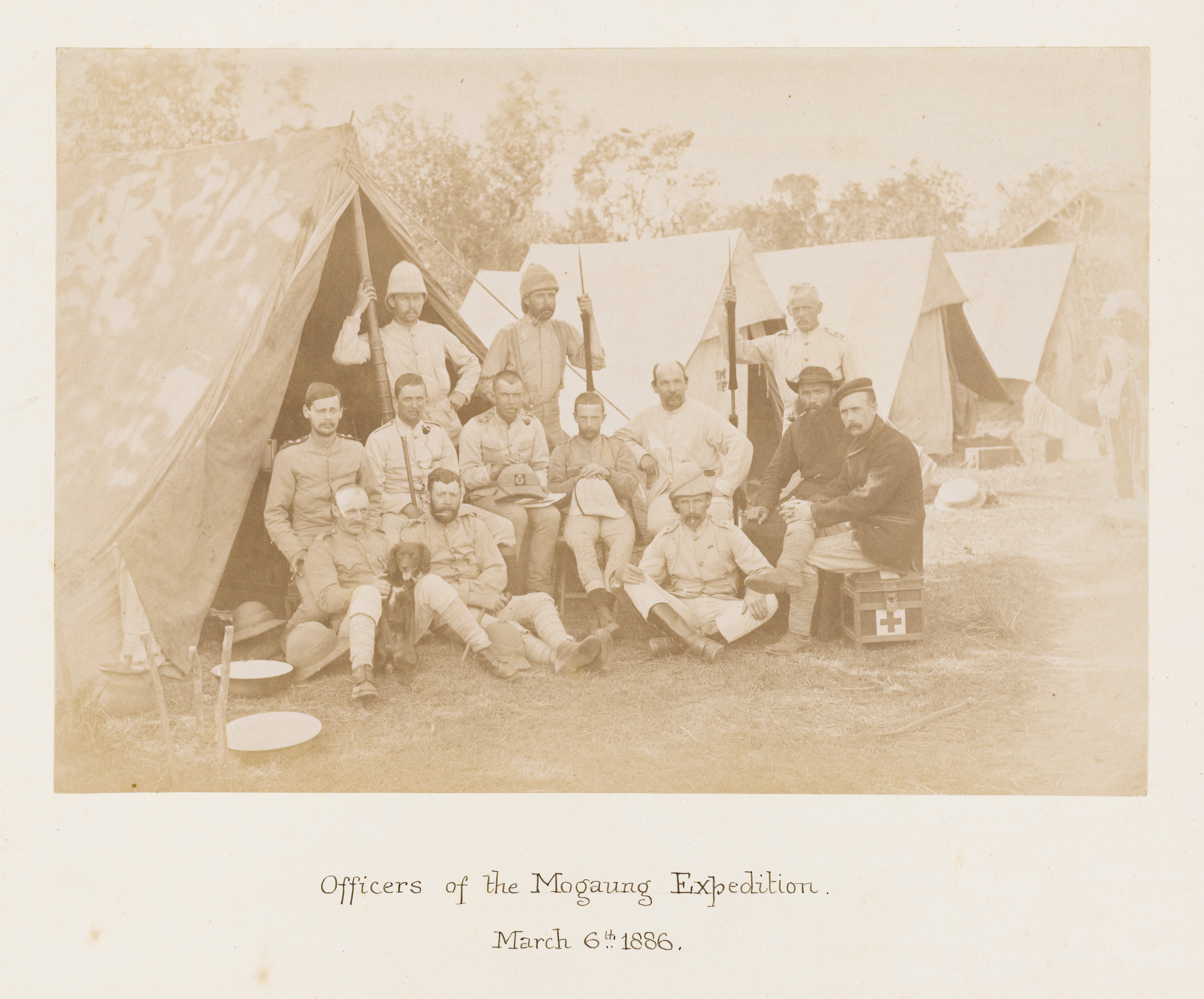 Photographs, perhaps by Lieut.-Col. F.H.M. Burton, taken during 1885-1887 Burma Campaign. Photo number 18: Officers of Mogaung Expedition, March 6th 1886 Archives & Manuscripts